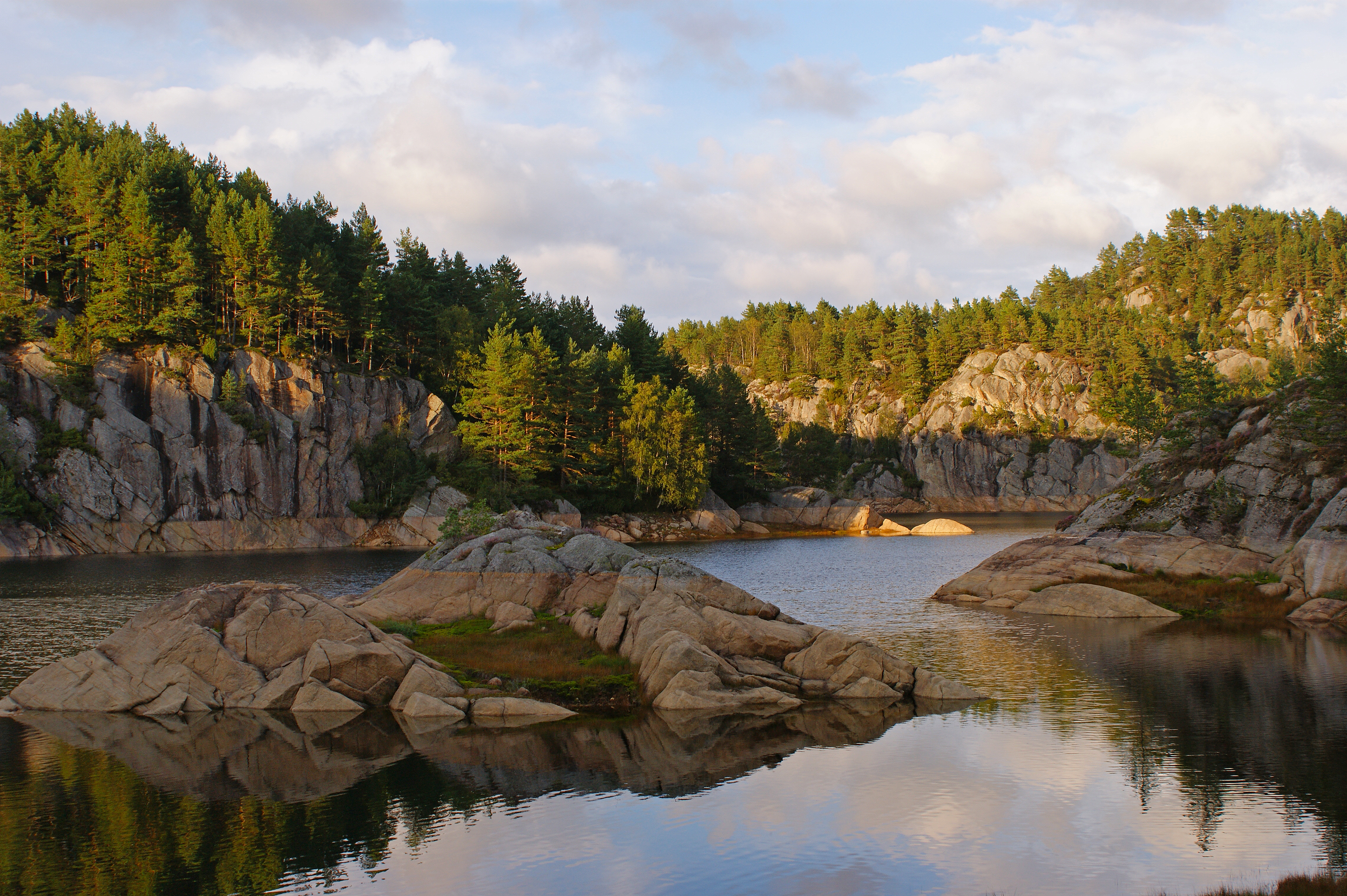 From Mjåvatn, Vest-Agder. The lake is dammed and used for hydro power production.